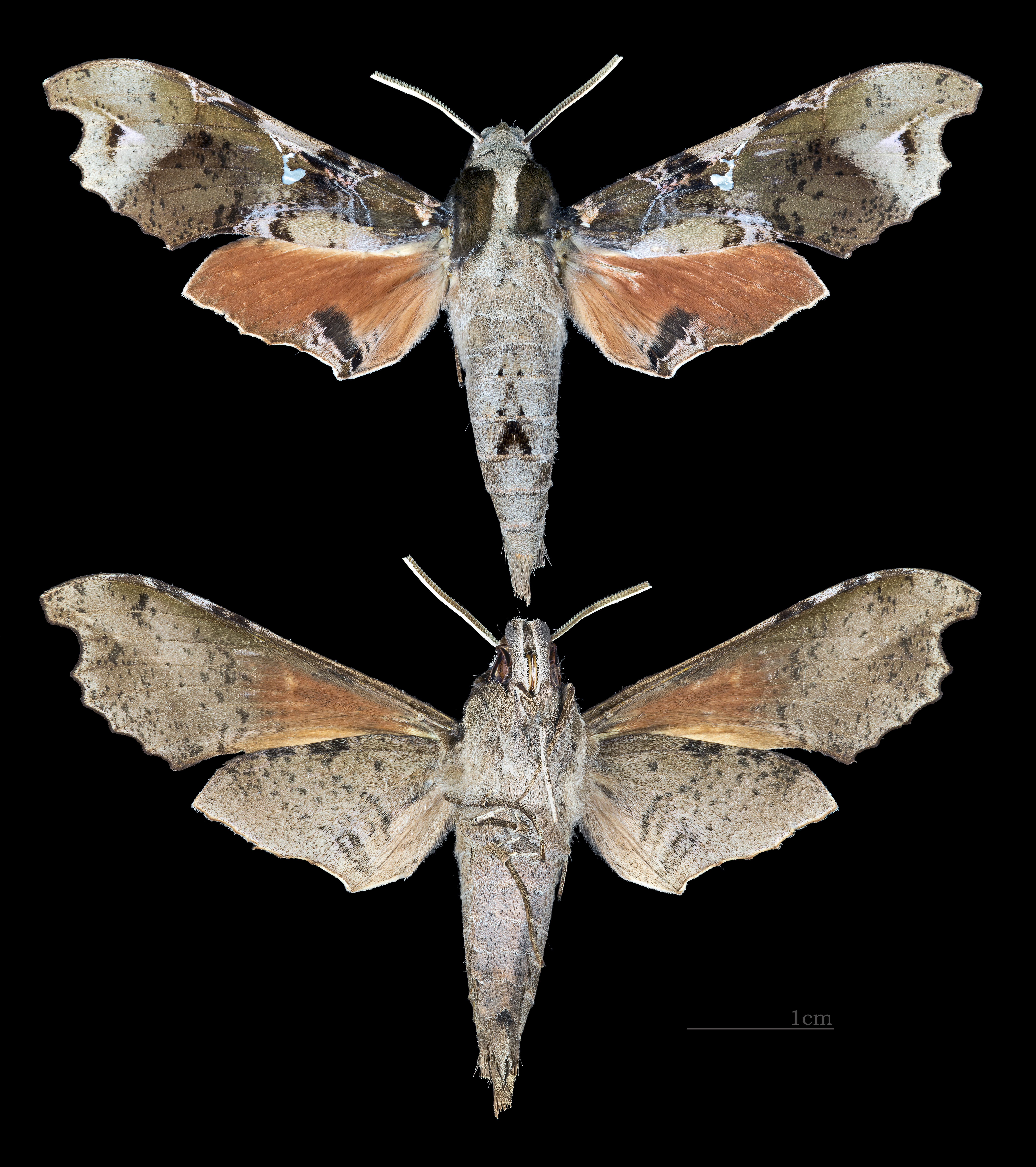 Callionima denticulata - Two views of same specimen Collection of the Mathematician Laurent Schwartz